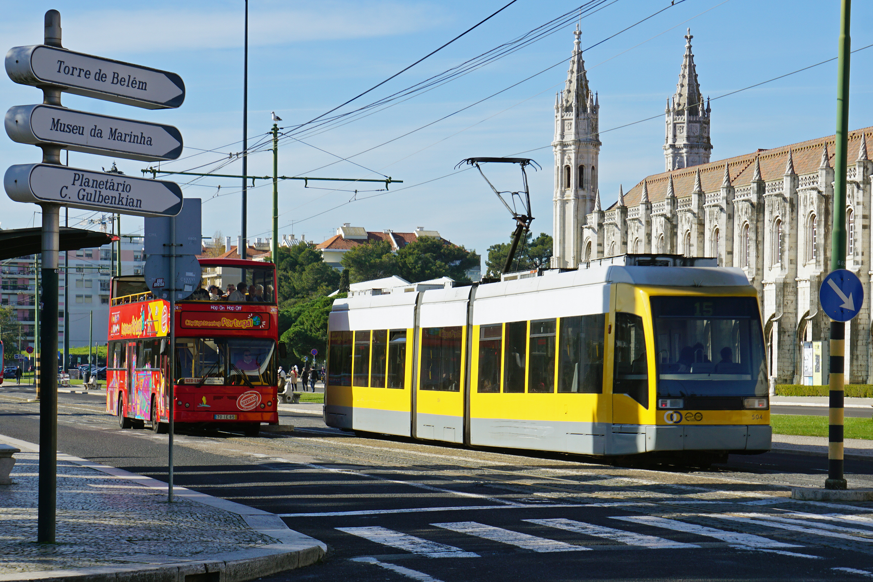 Carrris Tram route 15 at Mosteiro dos Jerónimos